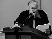 Yevgeny Yevtushenko - Coolidge Auditorium of the United States Library of Congress - April 29, 2004